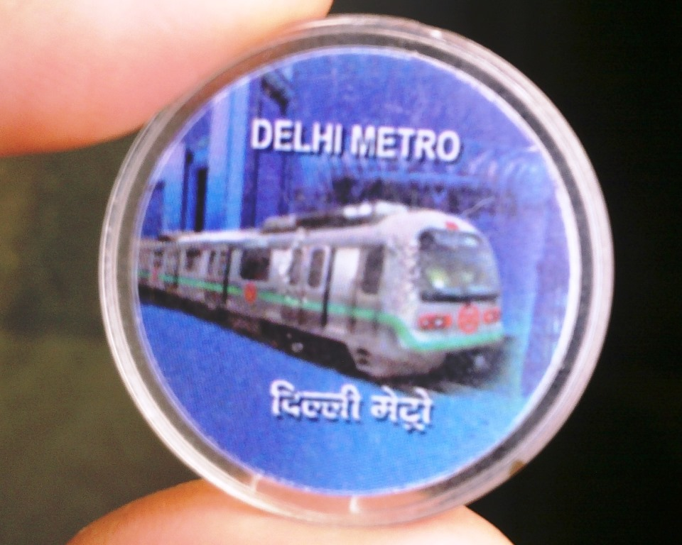 one way ticket